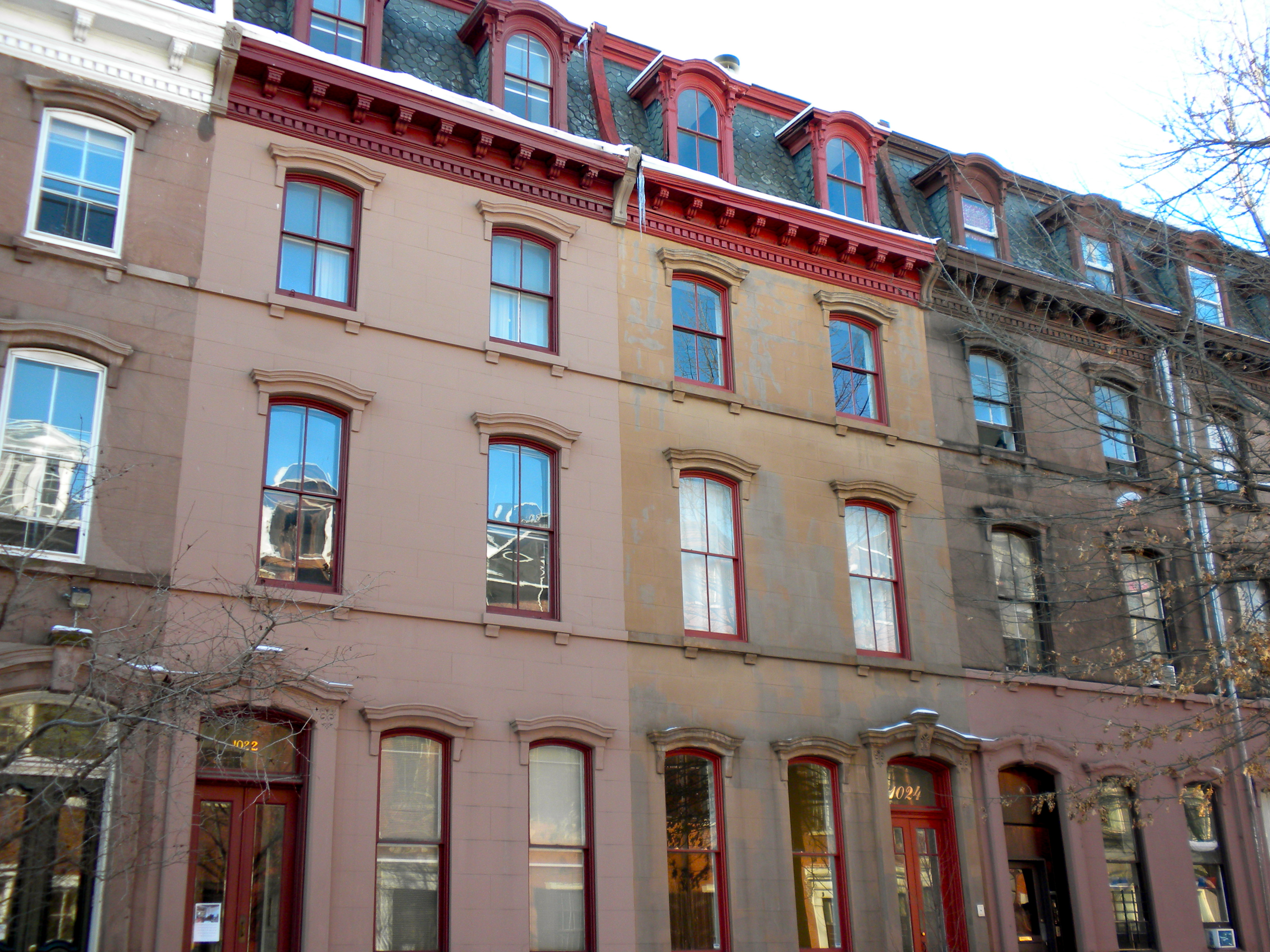 John Stewart Houses, row houses in Philadelphia. On NRHP since November 20, 1979. At 1020–1028 Spruce Street in the Washington Square West neighborhood of Center City.